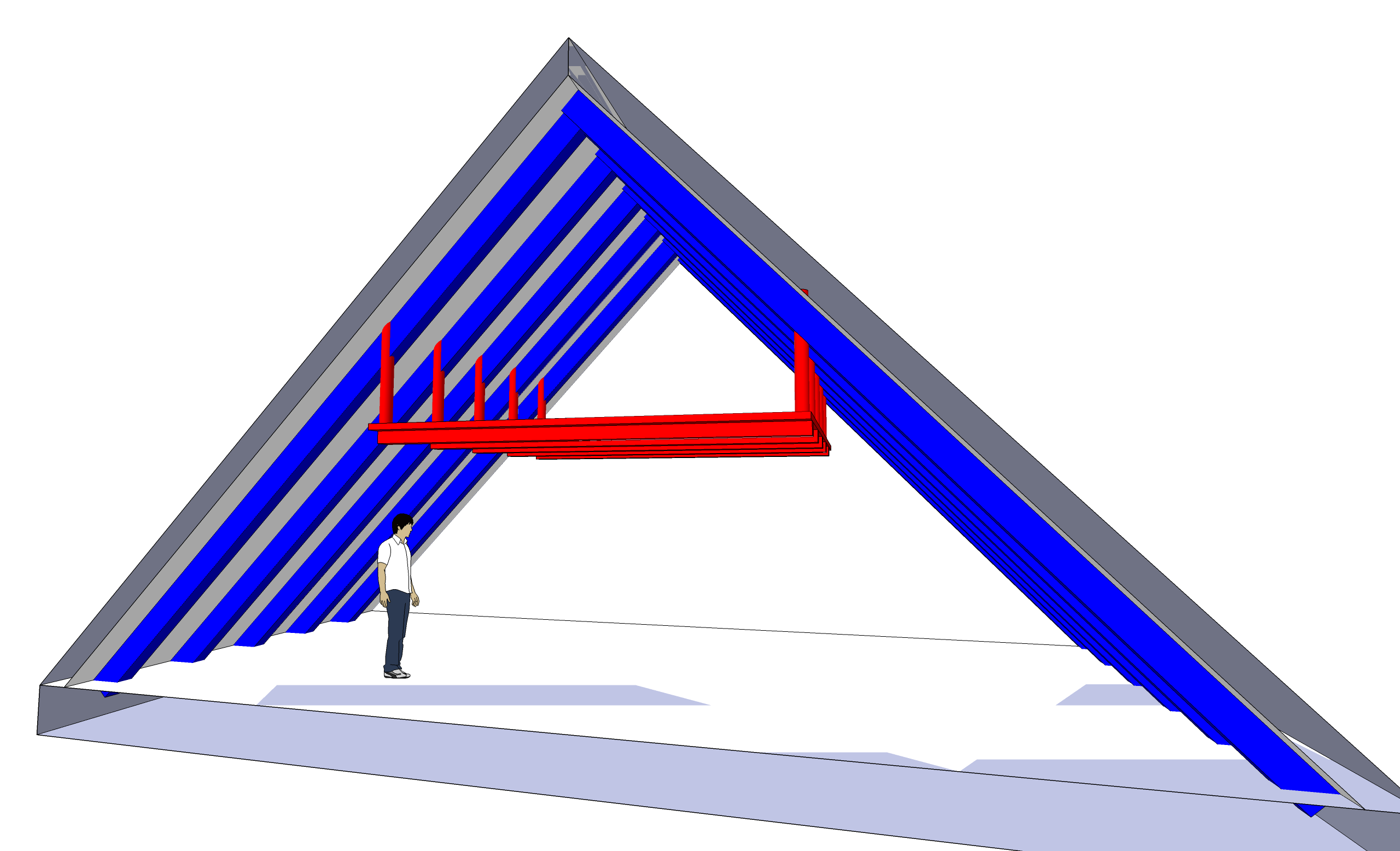 Sketch of a Suspended Floor